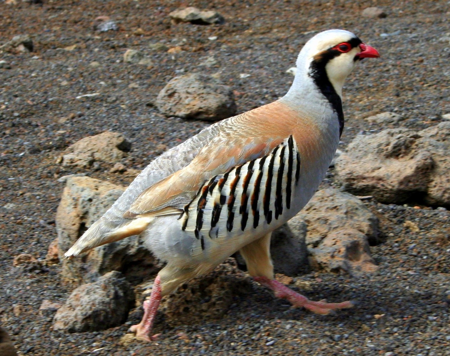 Non-native chukar, on the Big Island of Hawaii, Haleakala